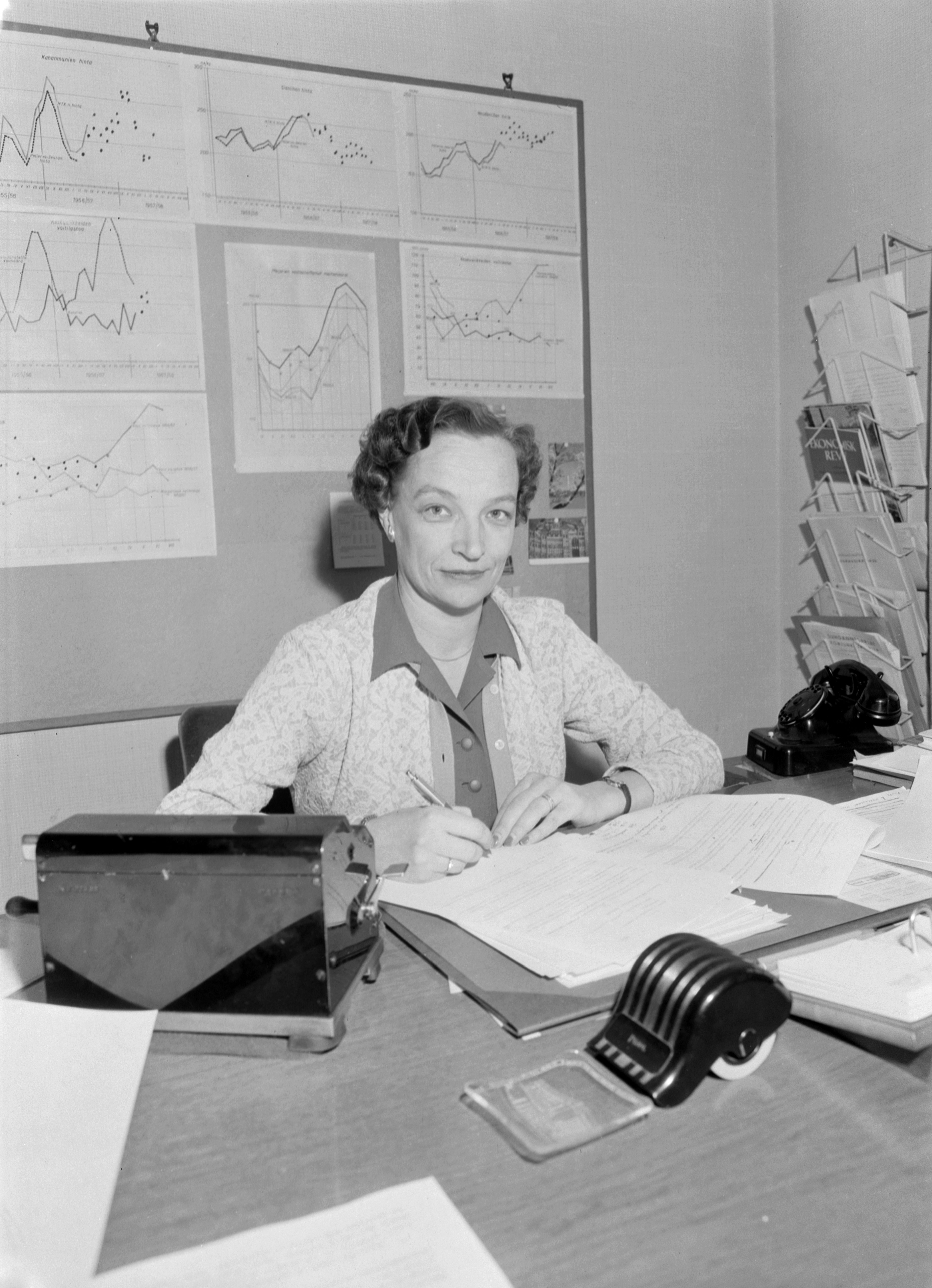 Photograph of the Finnish agronomist Liisa Sauli (1917–2014) at her office in MTK, Simonkatu, Helsinki.